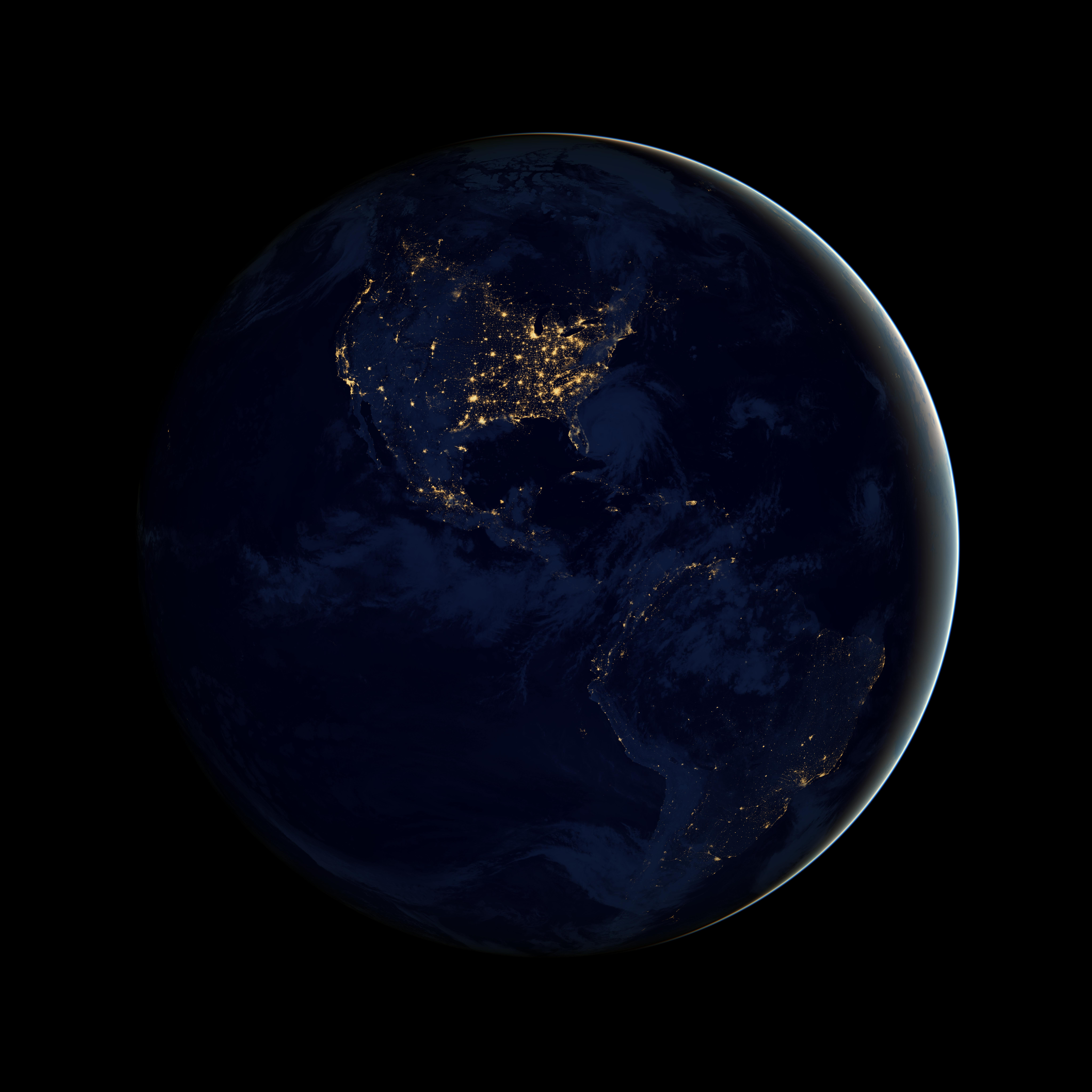 This image of North and South America at night is a composite assembled from data acquired by the Suomi NPP satellite in April and October 2012. The new data was mapped over existing Blue Marble imagery of Earth to provide a realistic view of the planet. The nighttime view was made possible by the new satellite’s “day-night band” of the Visible Infrared Imaging Radiometer Suite. VIIRS detects light in a range of wavelengths from green to near-infrared and uses filtering techniques to observe dim signals such as city lights, gas flares, auroras, wildfires, and reflected moonlight. In this case, auroras, fires, and other stray light have been removed to emphasize the city lights.